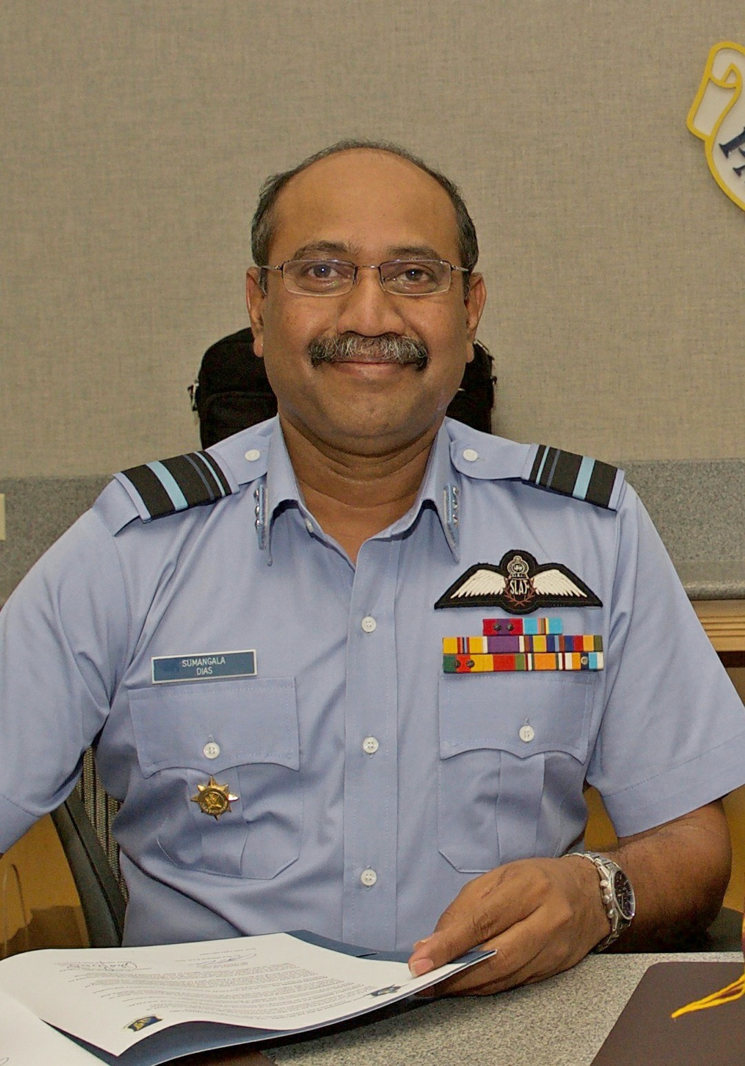 Sri Lankan Air force officer Sumangala Dias at PACAF 2017, cropped.